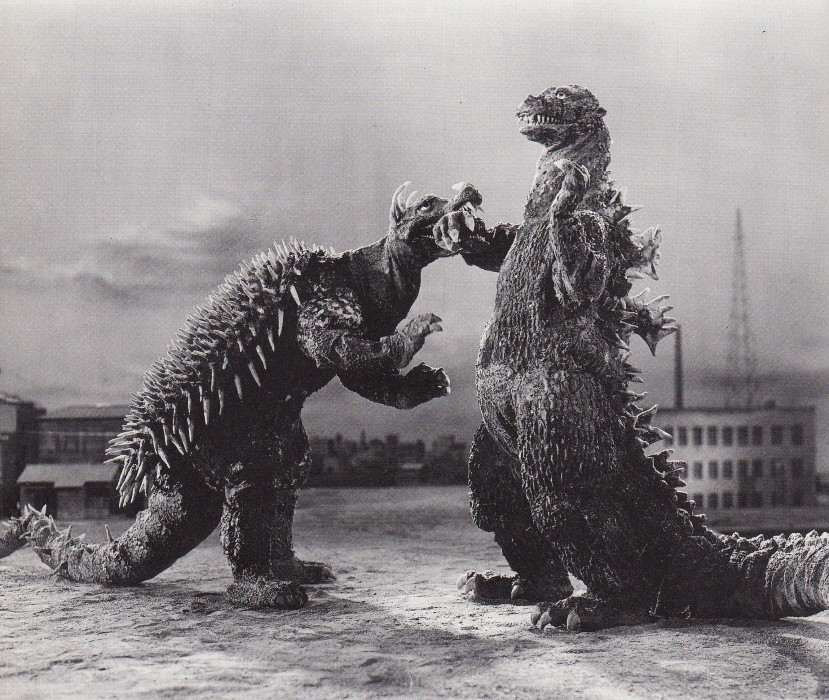 Promotional image from Godzilla Raids Again. Anguirus left, Godzilla right.